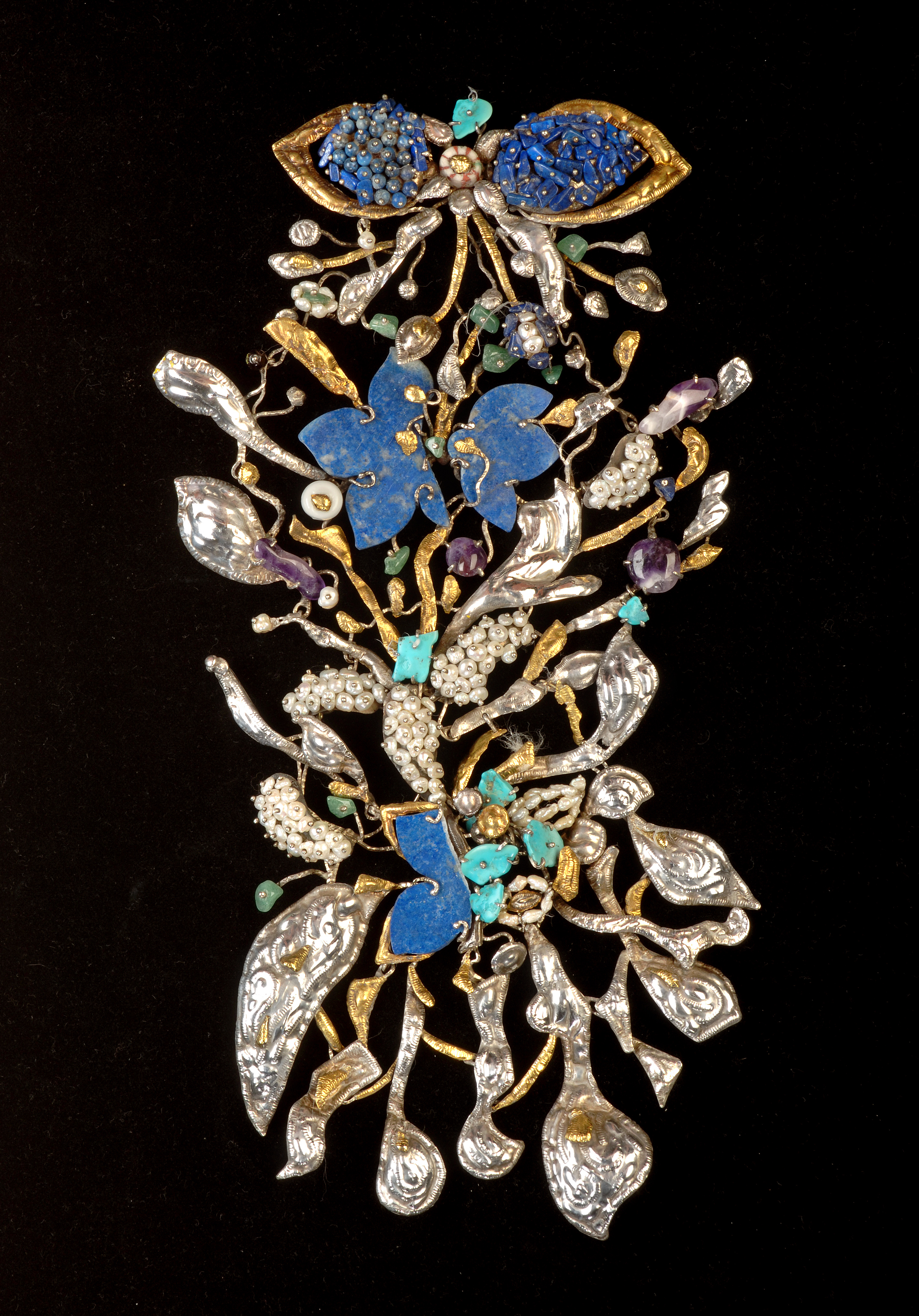 Byzantine dance 1992